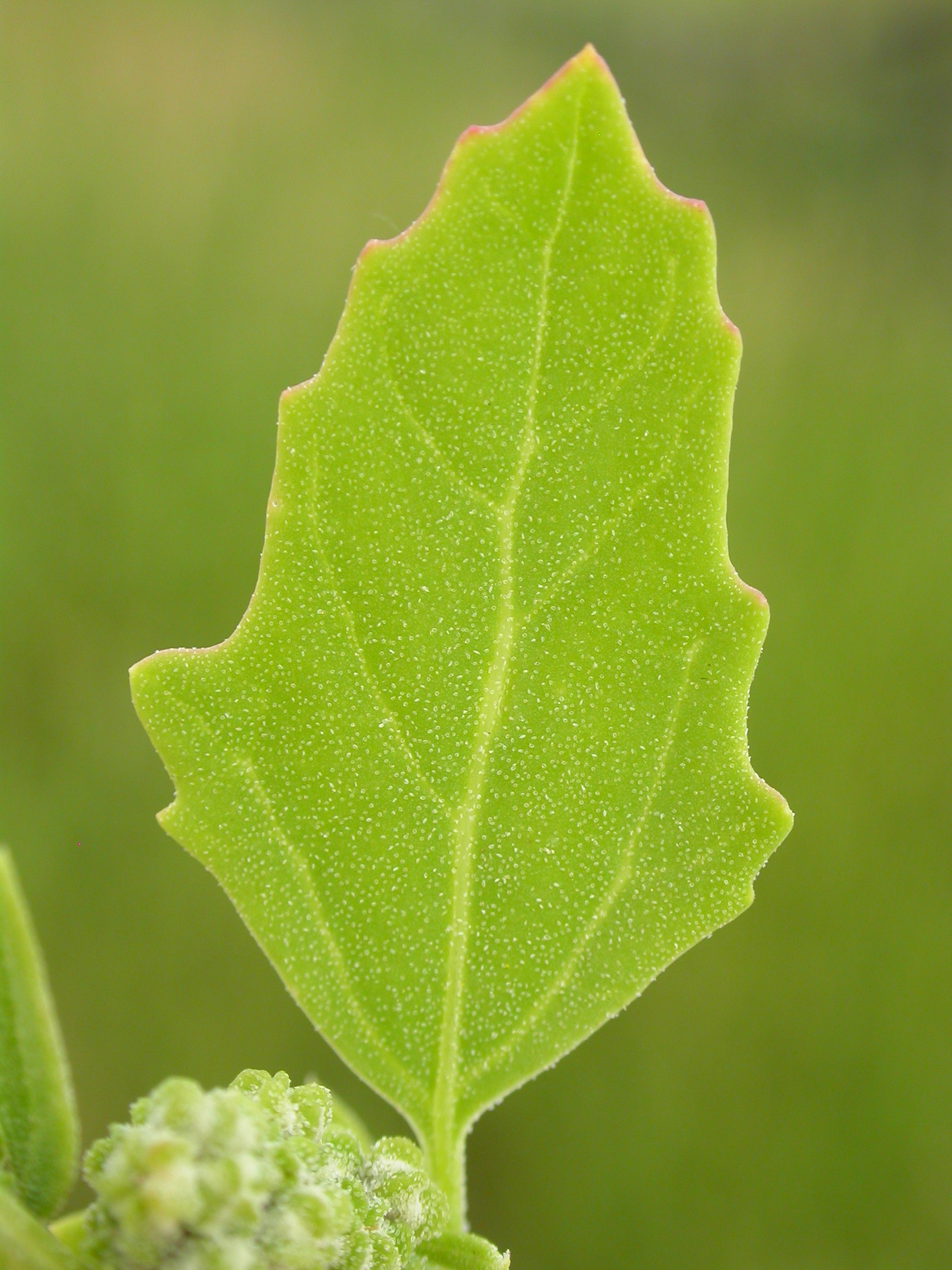 Chenopodium berlandieri Moq. - pit-seeded goosefoot